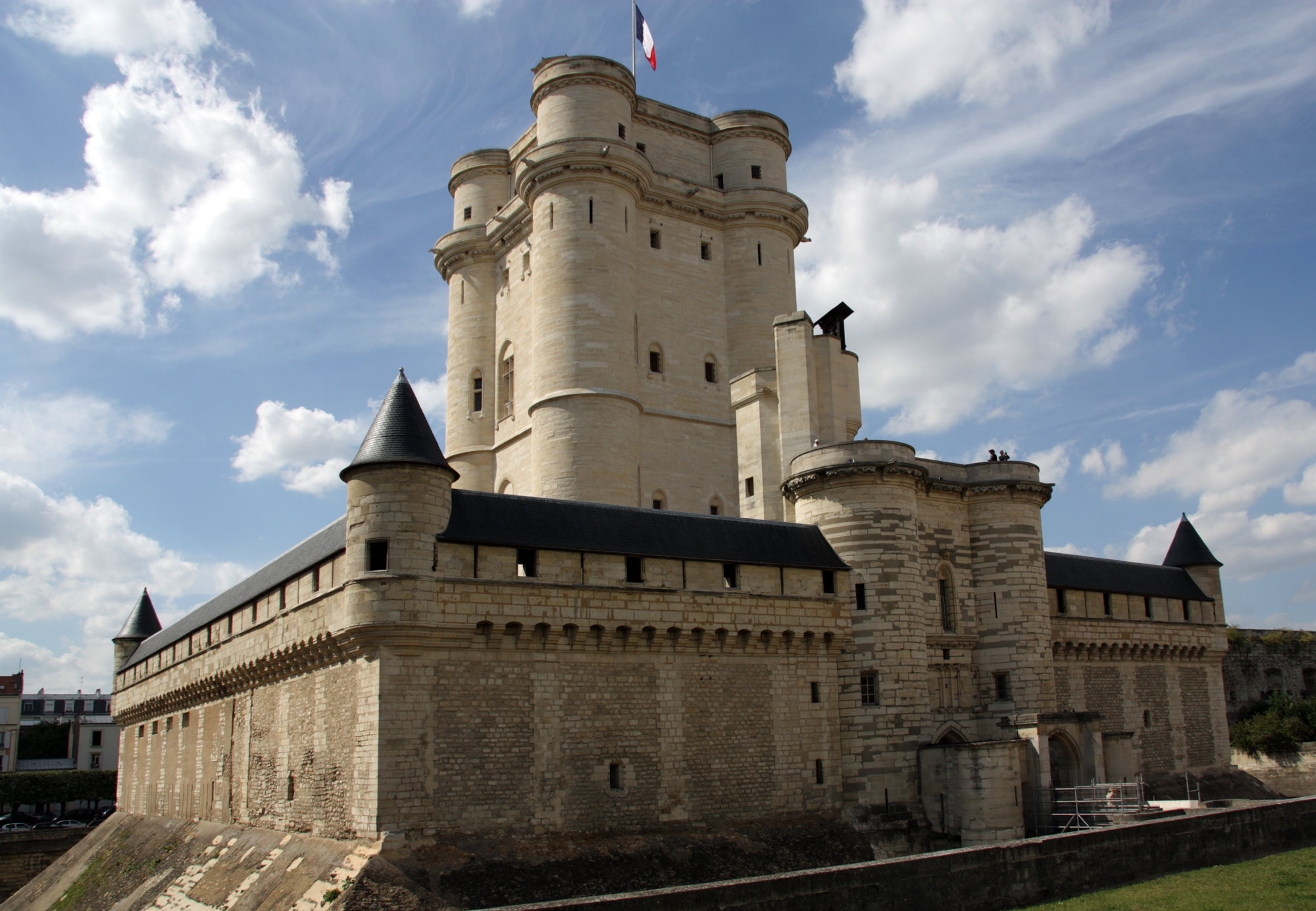 Chateau de Vincennes keep, Paris संस्कृतम्: Цитаделла Шато де Венсана